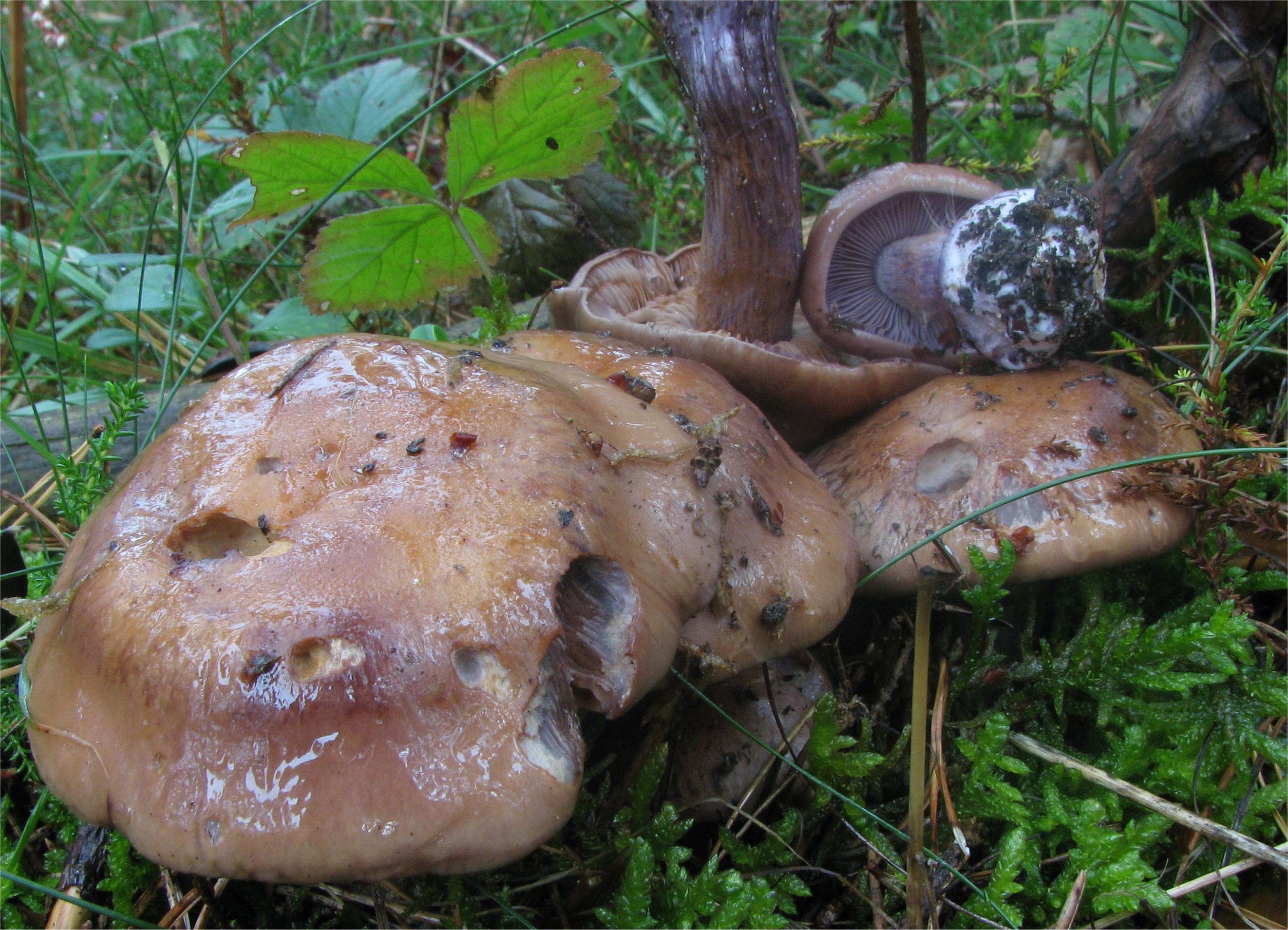 Fruit bodies of the basidiomycete fungus Cortinarius purpurascens Fr. Specimens collected in Lojsta, Gotland, Sweden.